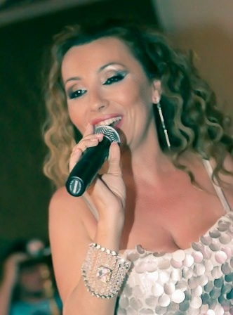 Popi Maliotaki live